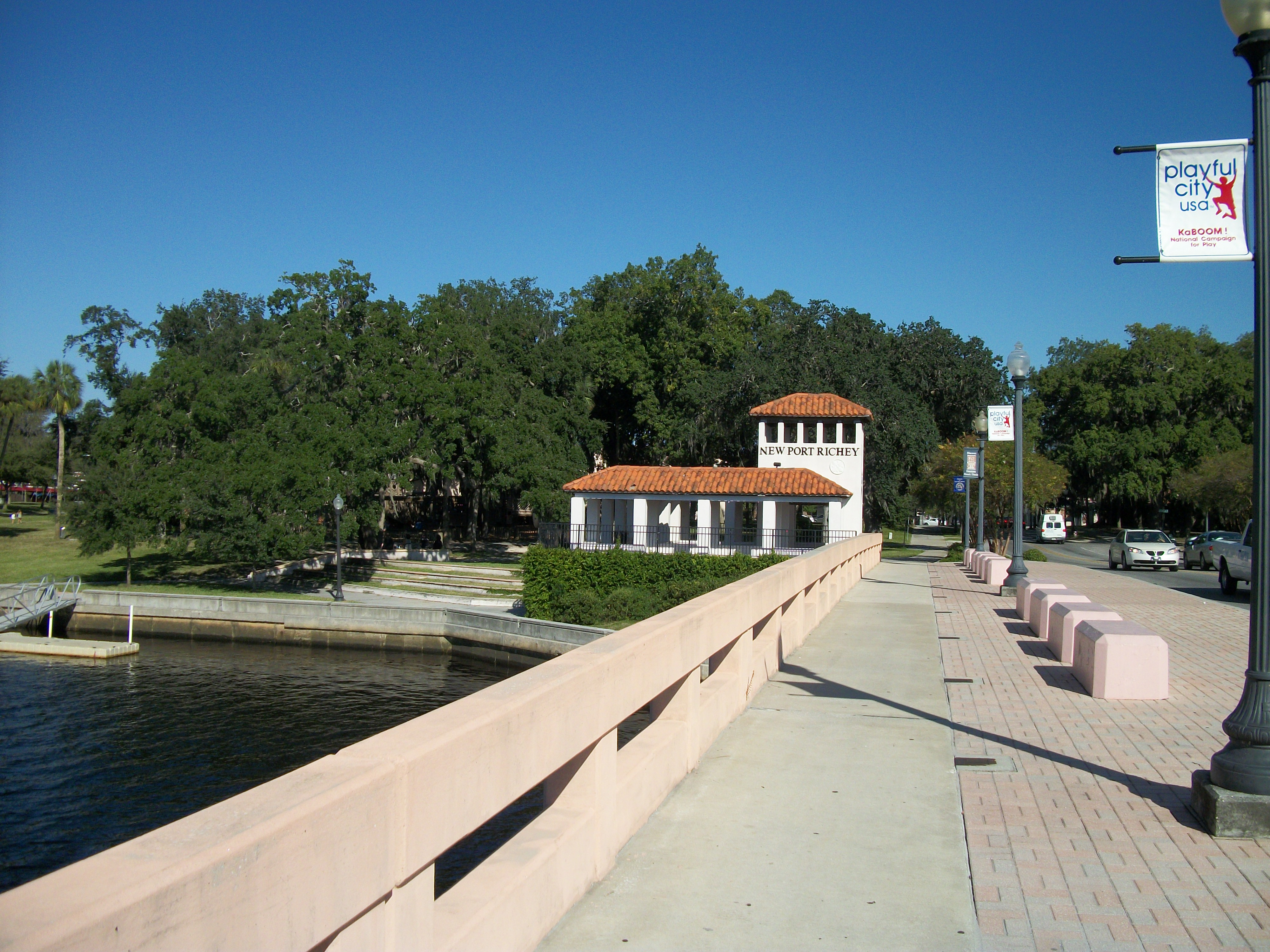 The Main Street Bridge over the Pithlachascotee River in New Port Richey, Florida. Taken from the westbound sidewalk facing east. The "tower" on the northeast corner of the bridge serves an an entrance to Sims Park and as a gateway to downtown New Port Richey.